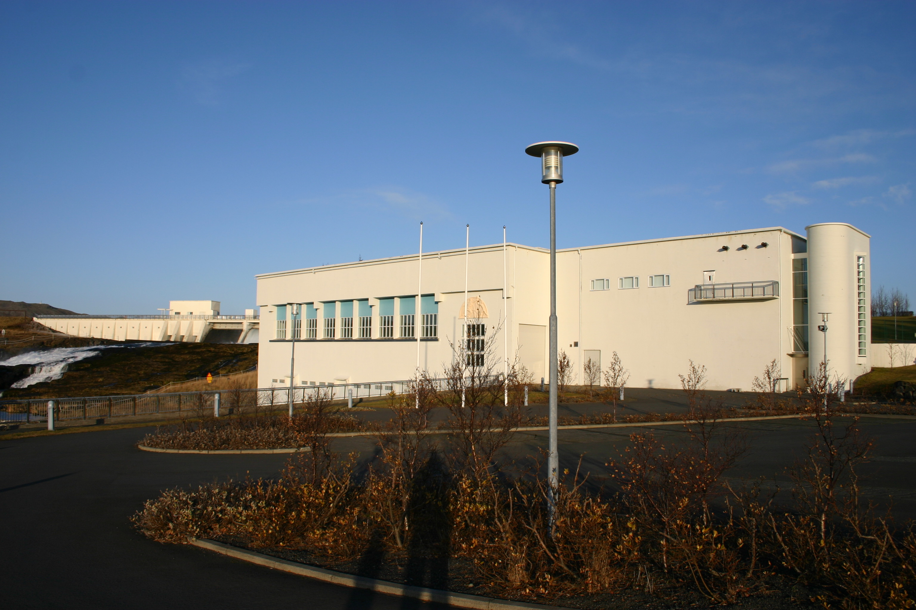 Ljosafoss hydroelectric power plant Iceland.